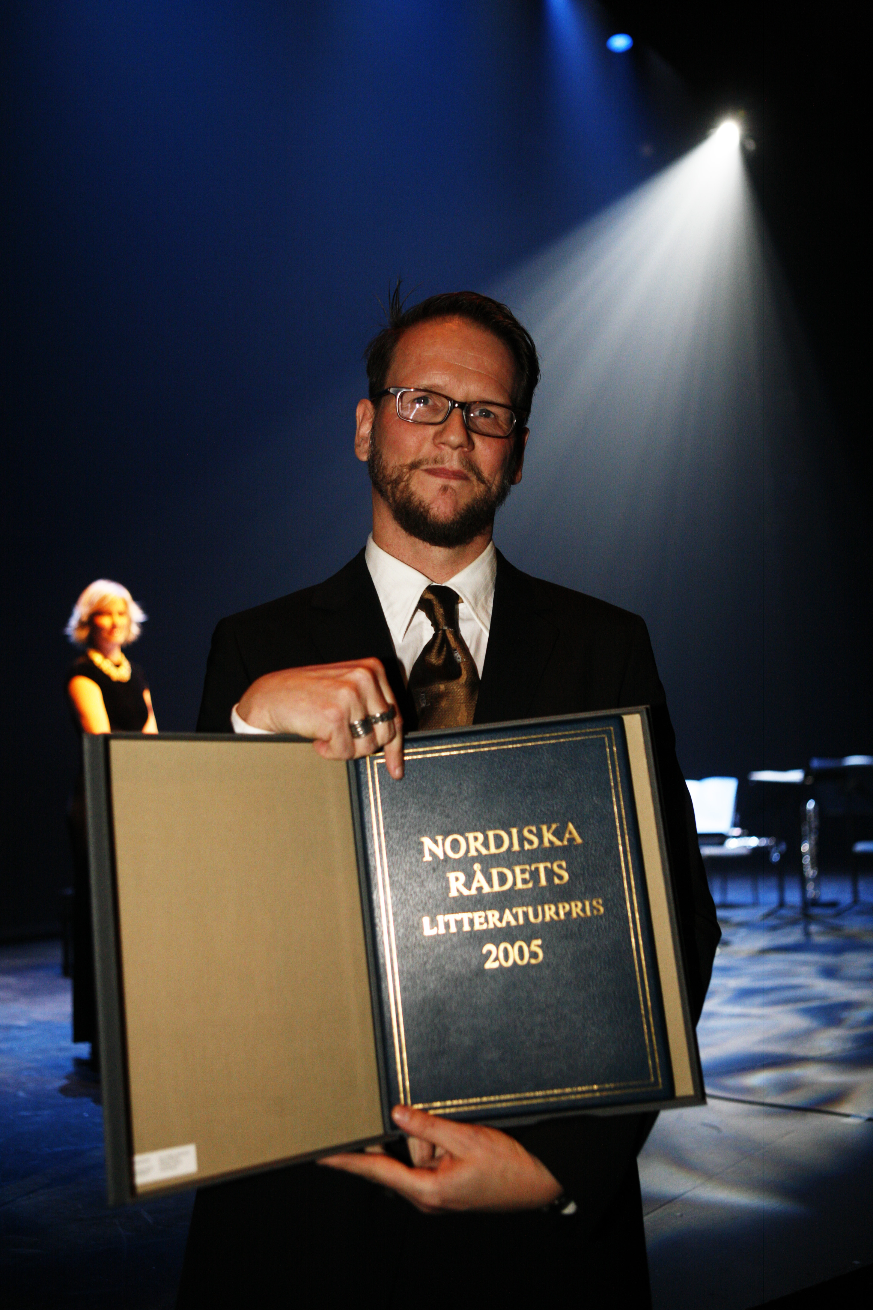 Sjón, Nordiska rådets litteraturprisvinnare. Foto: Magnus Fröderberg/norden.org Keywords: Literature Prize